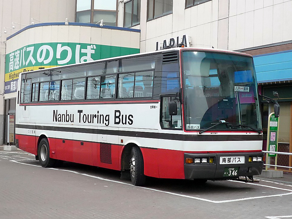 Nanbu Bus Highwaybus "Hassey"(Hachinohe-Morioka),Isuzu Super Cruiser